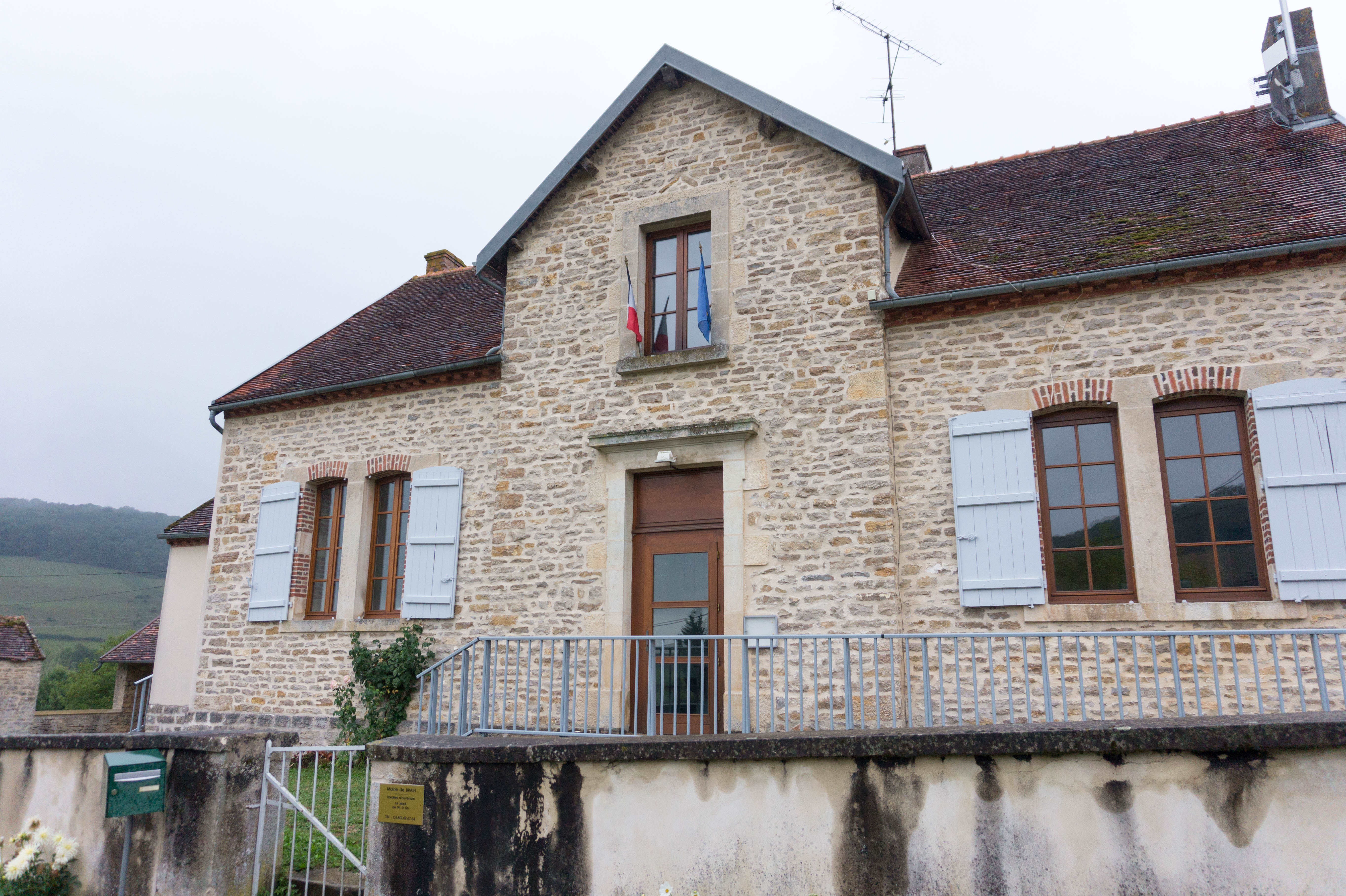 Town hall of Brain, Côte d'Or, France.